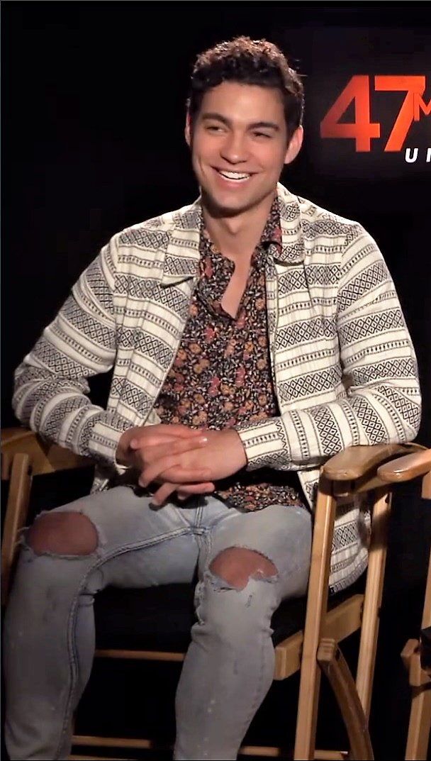 Brazilian American actor Davi Santos interviewed about his film "47 Meters Down: Uncaged" by Dulce Osuna. 47 Meters Down: Uncaged 🦈 Brianne Tju & cast talk pros and cons of filming underwater with sharks by Dulce Osuna